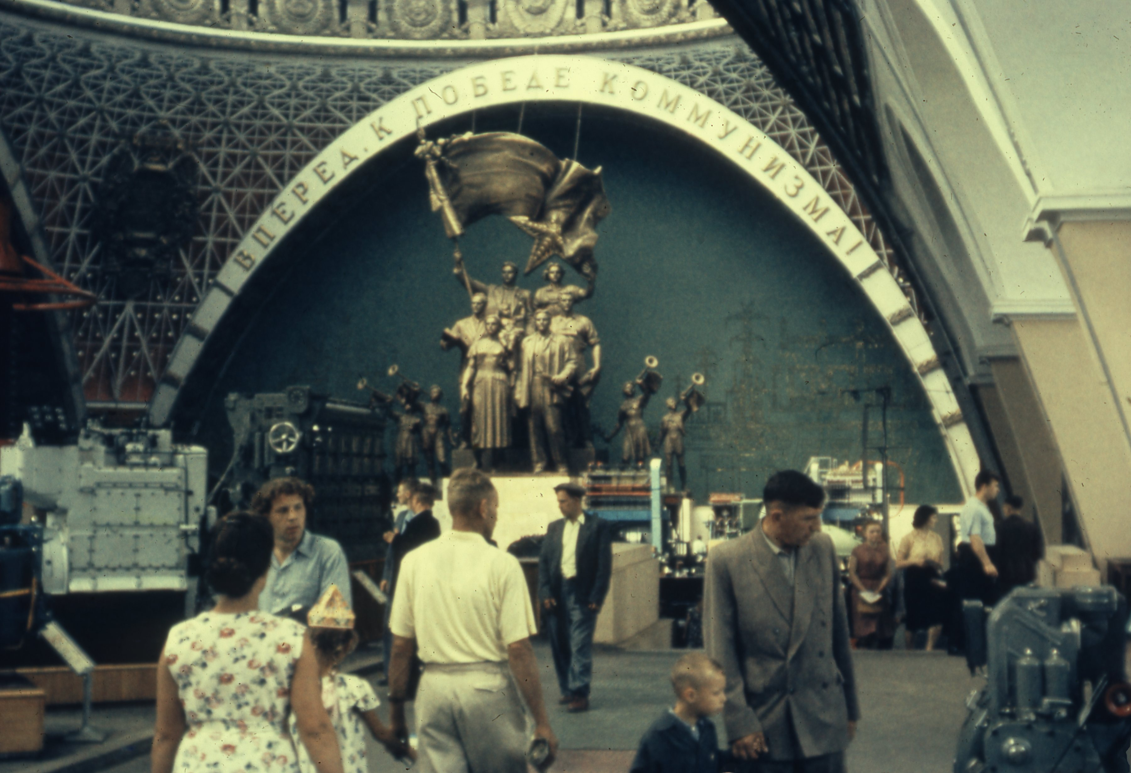 These images were taken by Thomas T. Hammond during his trip to the Soviet Union. This specific image features an exhibition hall (present-day Cosmos Pavilion of the VDNKh) inscribed with the words "Onward to the Victory of Communism!"